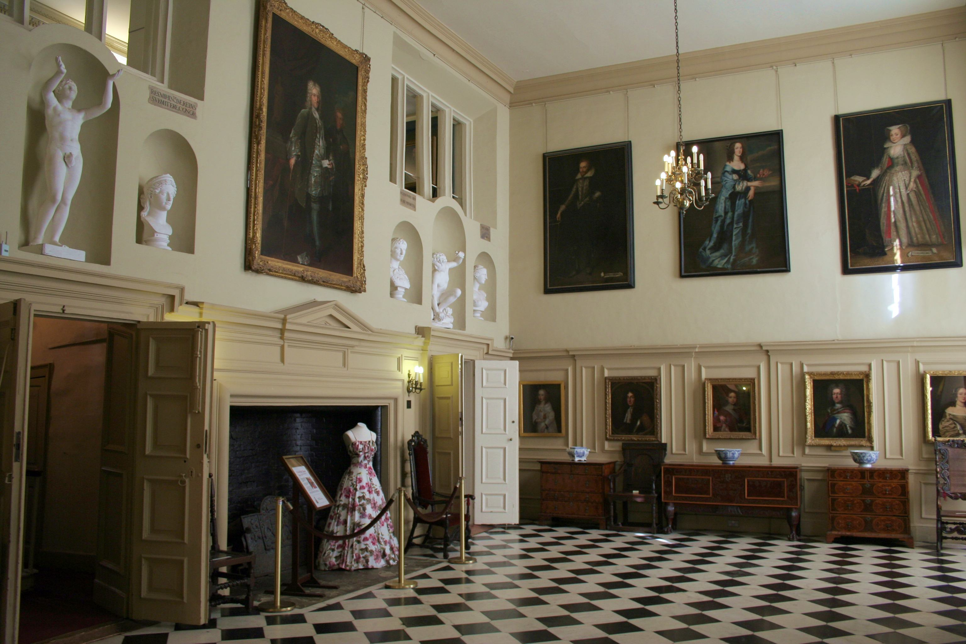 The Great Hall of Christchurch Mansion, Ipswich in August 2013.